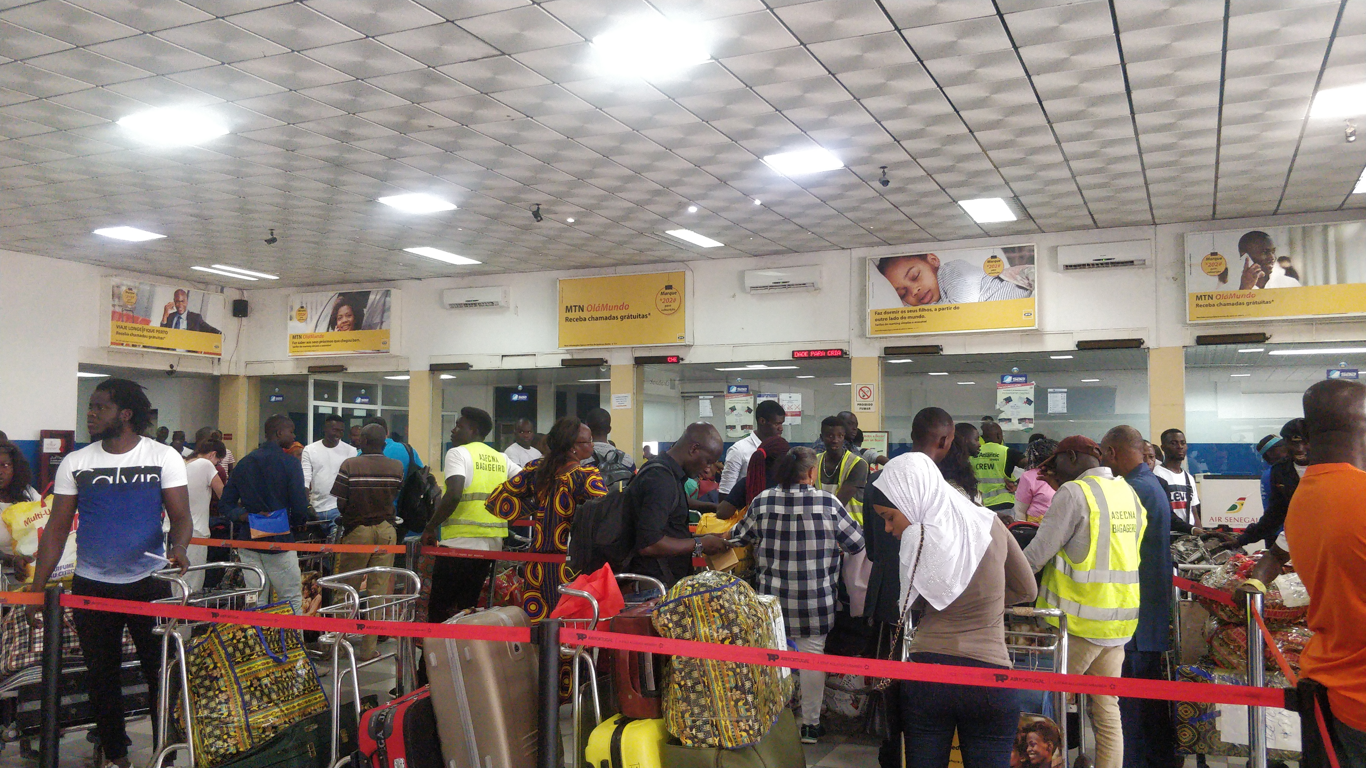 Check-In area at Bissau airport, Bissau, Guinea-Bissau